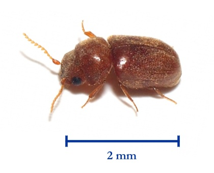 A drugstore beetle and it's size in mm. Photograph by Kamran Iftikhar.